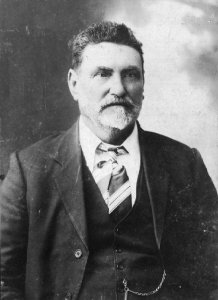 This is an image of Patrick Stone (1854–1926), Australian politician